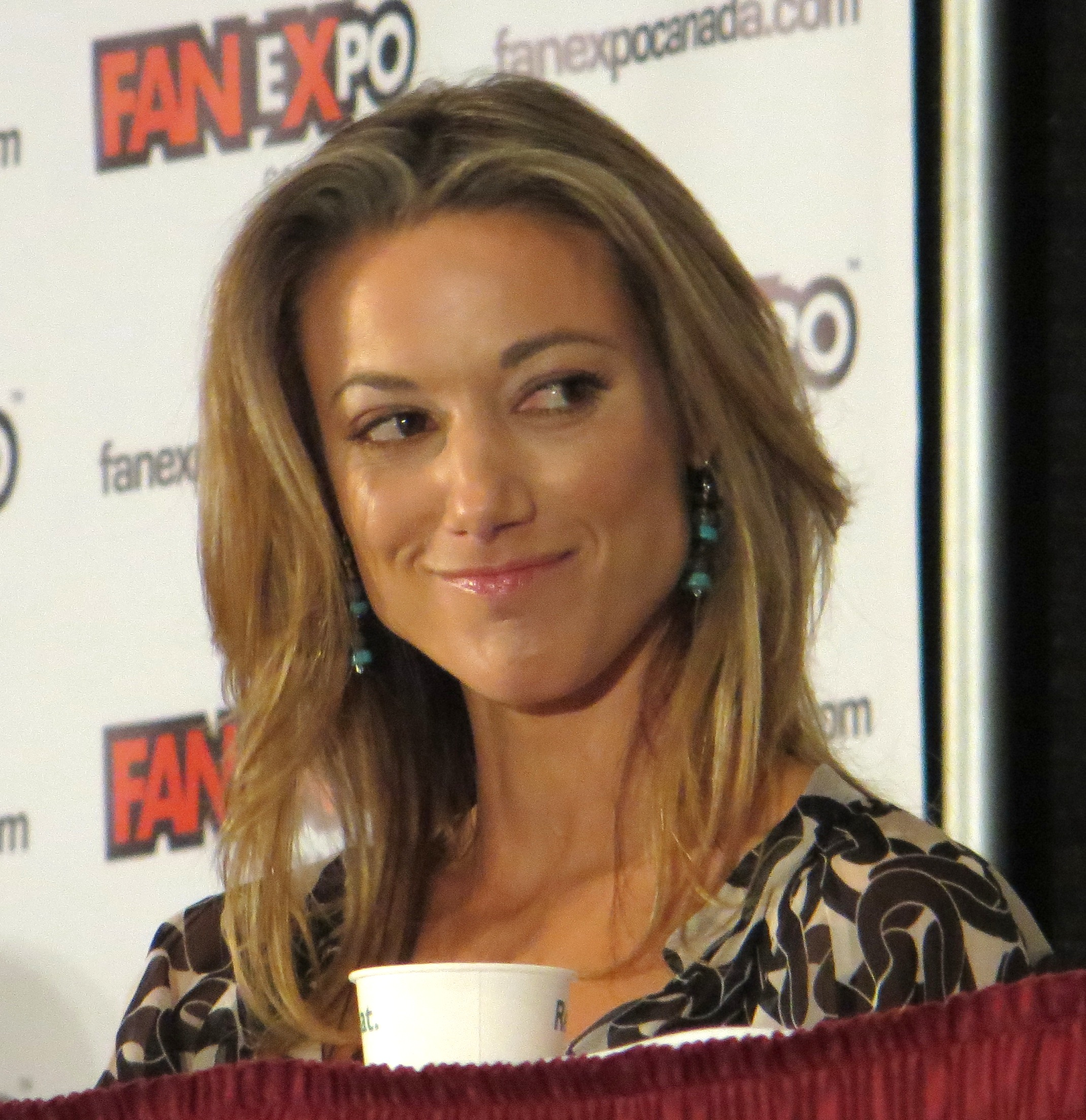 Actress Zoie Palmer during the Lost Girl Panel at FanExpo 2012 in Toronto, ON